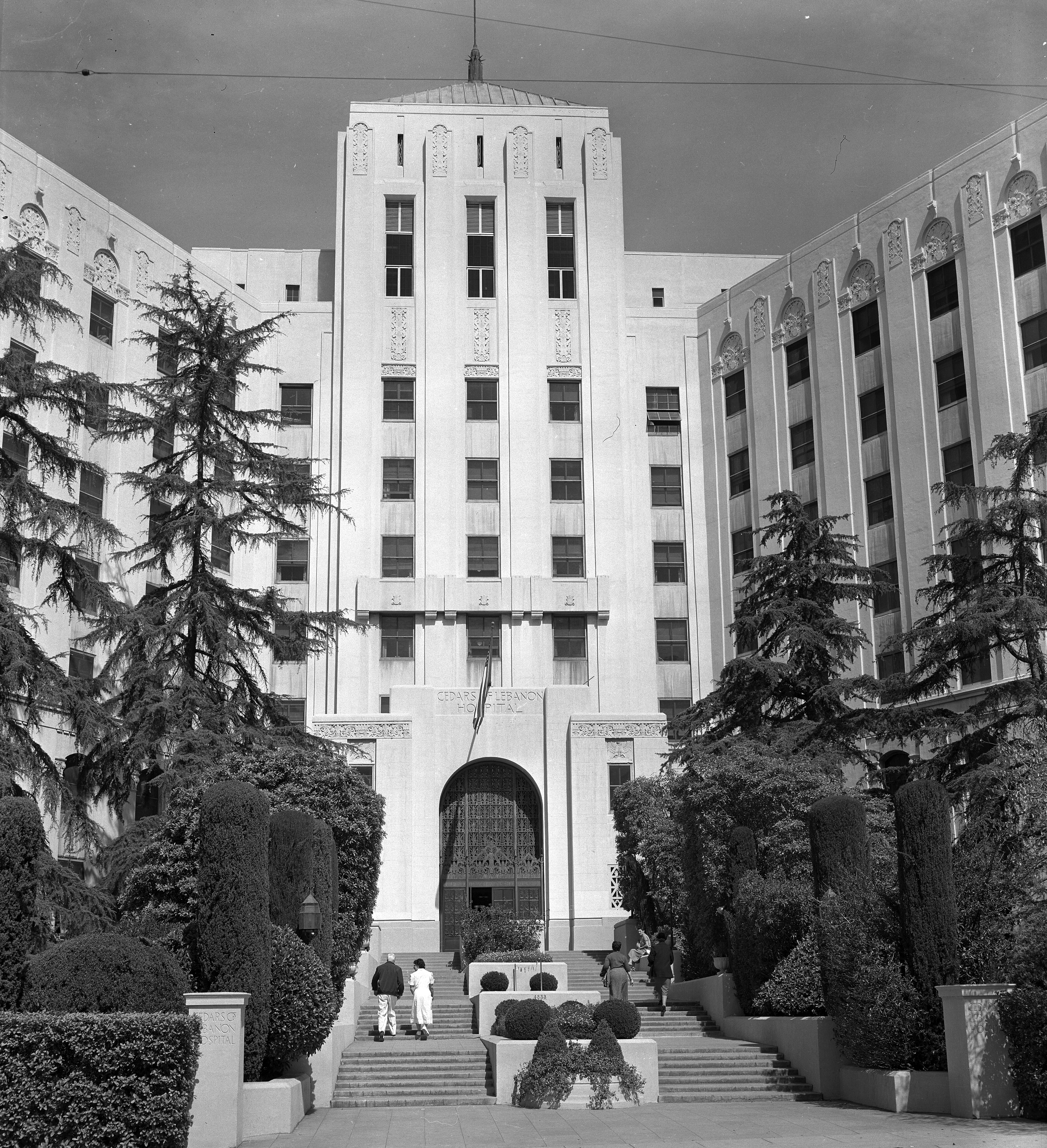 Title: Know Your City No.125 Entrance to Cedars of Lebanon Hospital at 4833 Fountain Ave., Hollywood, Calif. Published caption:KNOW YOUR CITY, NO.125 -- This one is almost too easy. If nothing else does, Cedrus libani should give it away. And, if you get out the magnifying glass and look close, you might even spot a name. May be easier just to turn to Page 28, Part ll. Publication:Los Angeles Times Publication date:March 21, 1956 Notes:ANSWER: Yep, it's the entrance to one of the city's larger hospitals, Cedars of Lebanon, at 4833 Fountain Ave., out Hollywood way. What are Cedrus libani? Cedars of Lebanon, naturally. Cedars of Lebanon and Mount Sinai Hospitals merged in 1961 to form Cedars-Sinai Medical Center. Subjects: Cedars-Sinai Medical Center. Cedars of Lebanon Division Source:Los Angeles Times photographic archive, UCLA Library Note about non-renewal of copyright: [1]